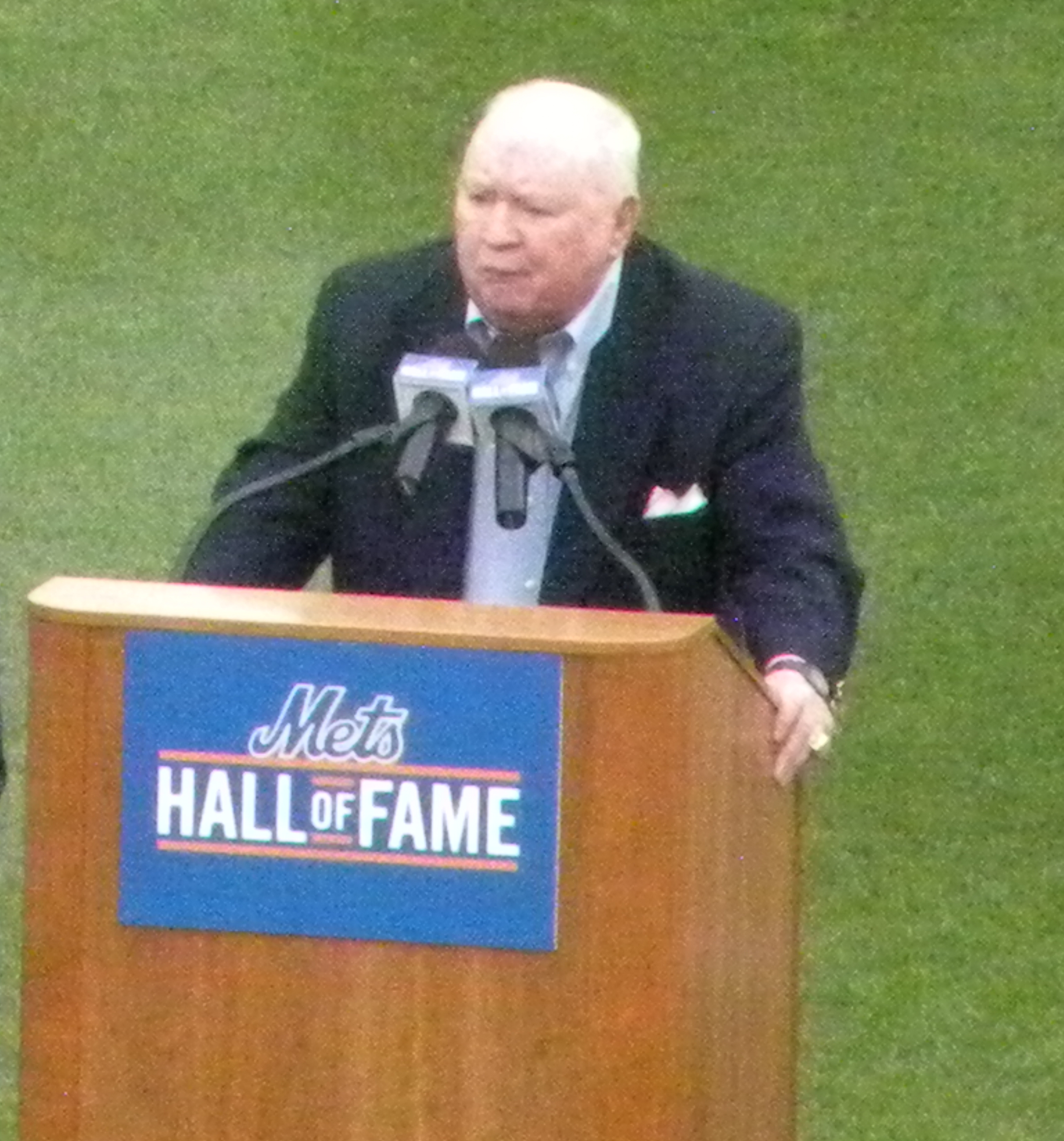 Former New York Mets GM Frank Cashen speaking after being inducted into the Mets Hall of Fame, August 2010. This file has been extracted from another file: Frank Cashen's Mets Hall of Fame Speech.jpg